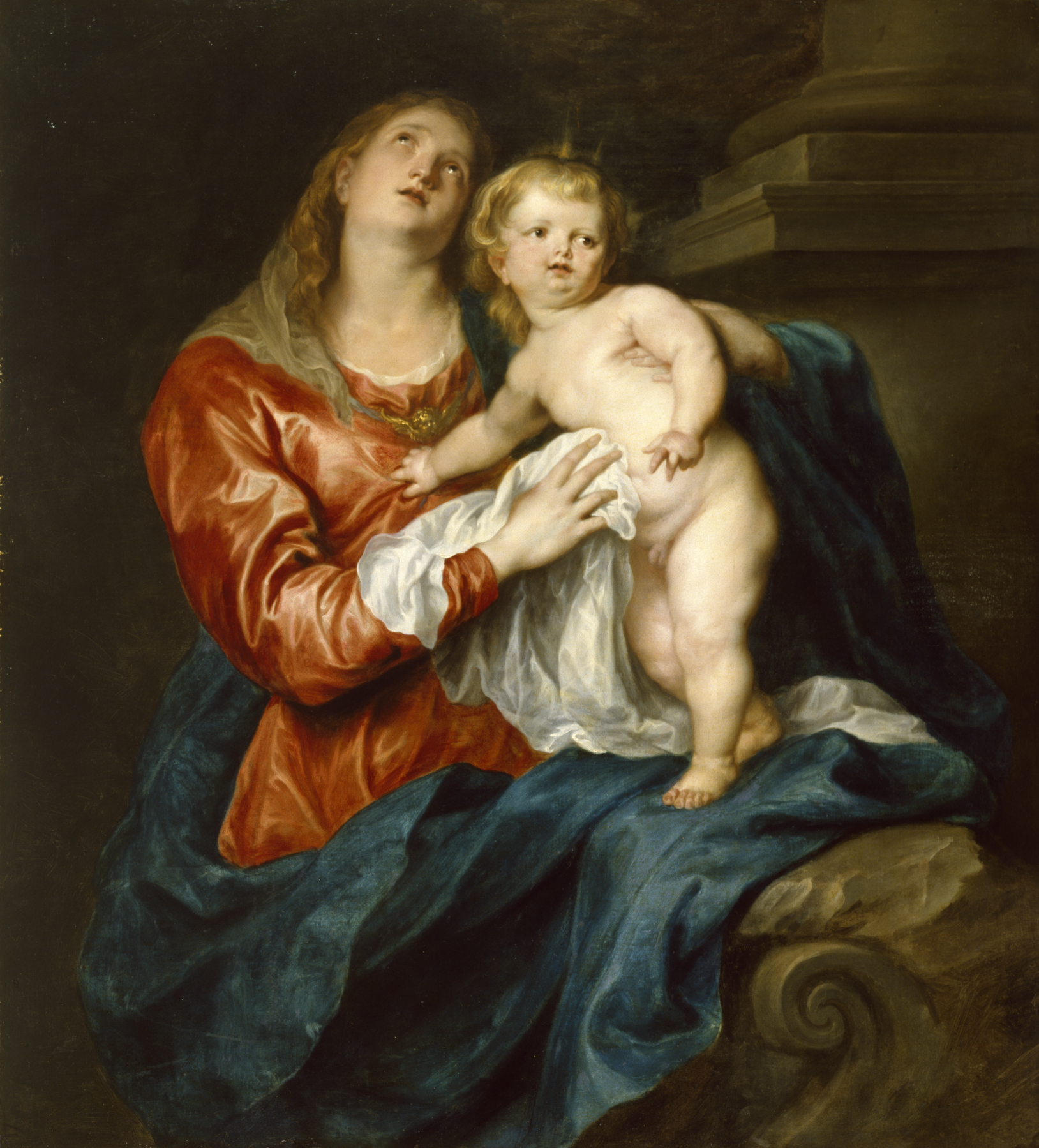 This Virgin and Child subtly incorporates traditional allusions to the miraculous. Mary's long, loose hair identifies her as a virgin, alluding to the virgin birth. The palatial column evokes her future reign as Queen of Heaven, while the nakedness of the Christ Child, explicitly a little boy, reminds believers that, miraculously, Christ was fully human and fully God. Van Dyck worked in the Antwerp studio of Peter Paul Rubens before spending six years in Italy. Once returned, he created a style synthesizing that of Flanders and Italy, producing dramatic, yet elegant religious works such as this Virgin and Child, one of several versions; Van Dyck's touch is most evident here in the Virgin's face and hand. He subsequently became court painter to King Charles I of England, who raised him to the nobility.